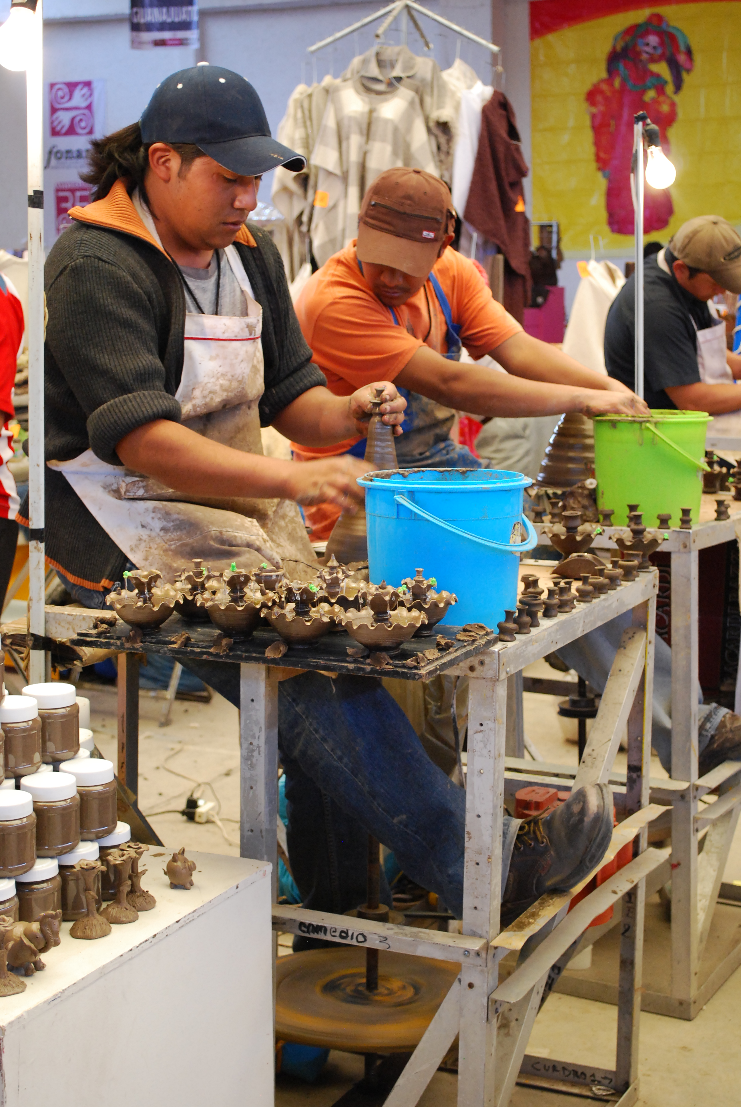 Potters working at the crafts section of the Feria del Caballo in Texcoco, Mexico State, Mexico